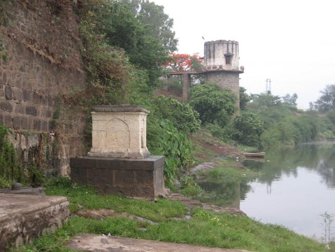 keshav swami samadhi umbraj